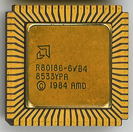 IC photo